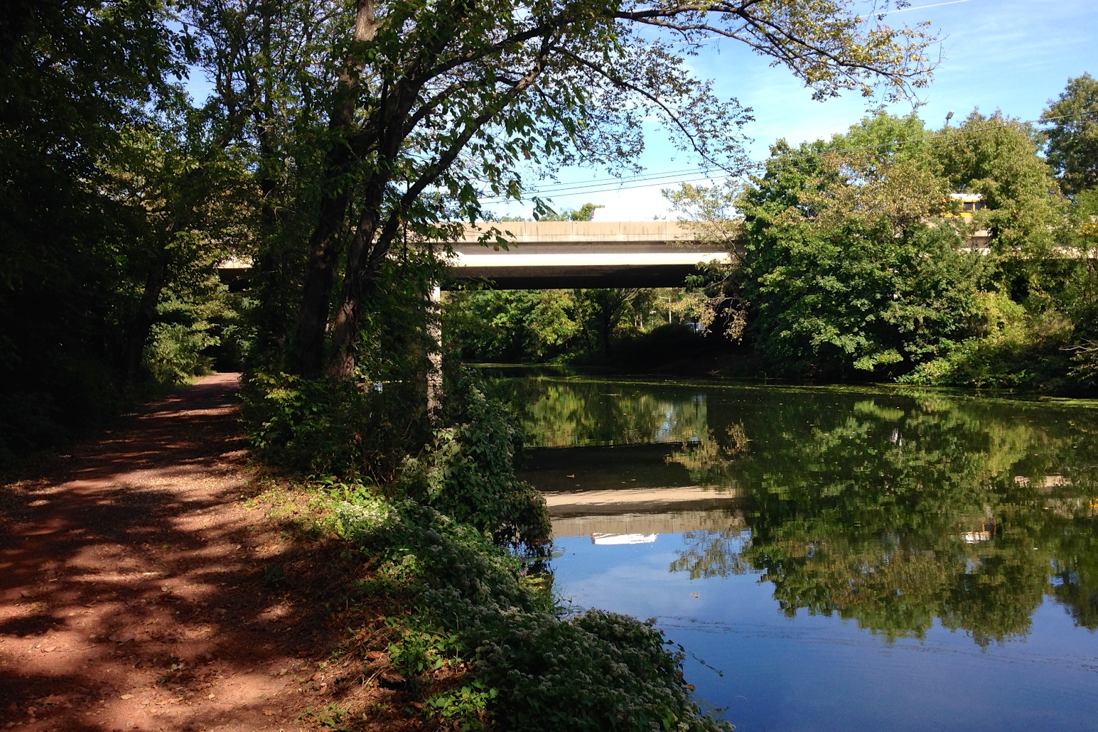 Delaware and Raritan Canal, Follows the Delaware River to Trenton, then E to New Brunswick New Brunswick